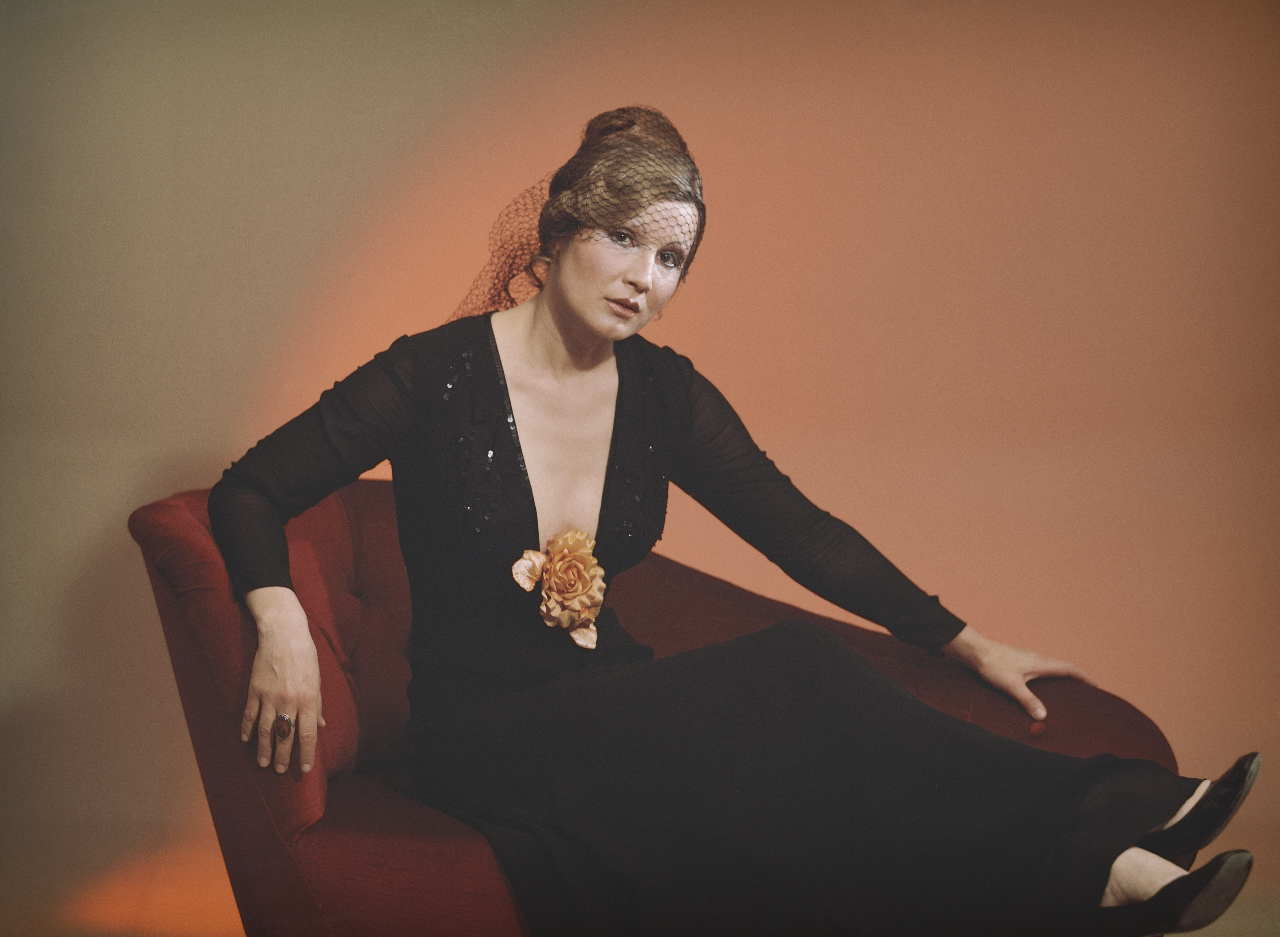 Photograph of the Finnish writer and journalist Anu Seppälä (1939–).